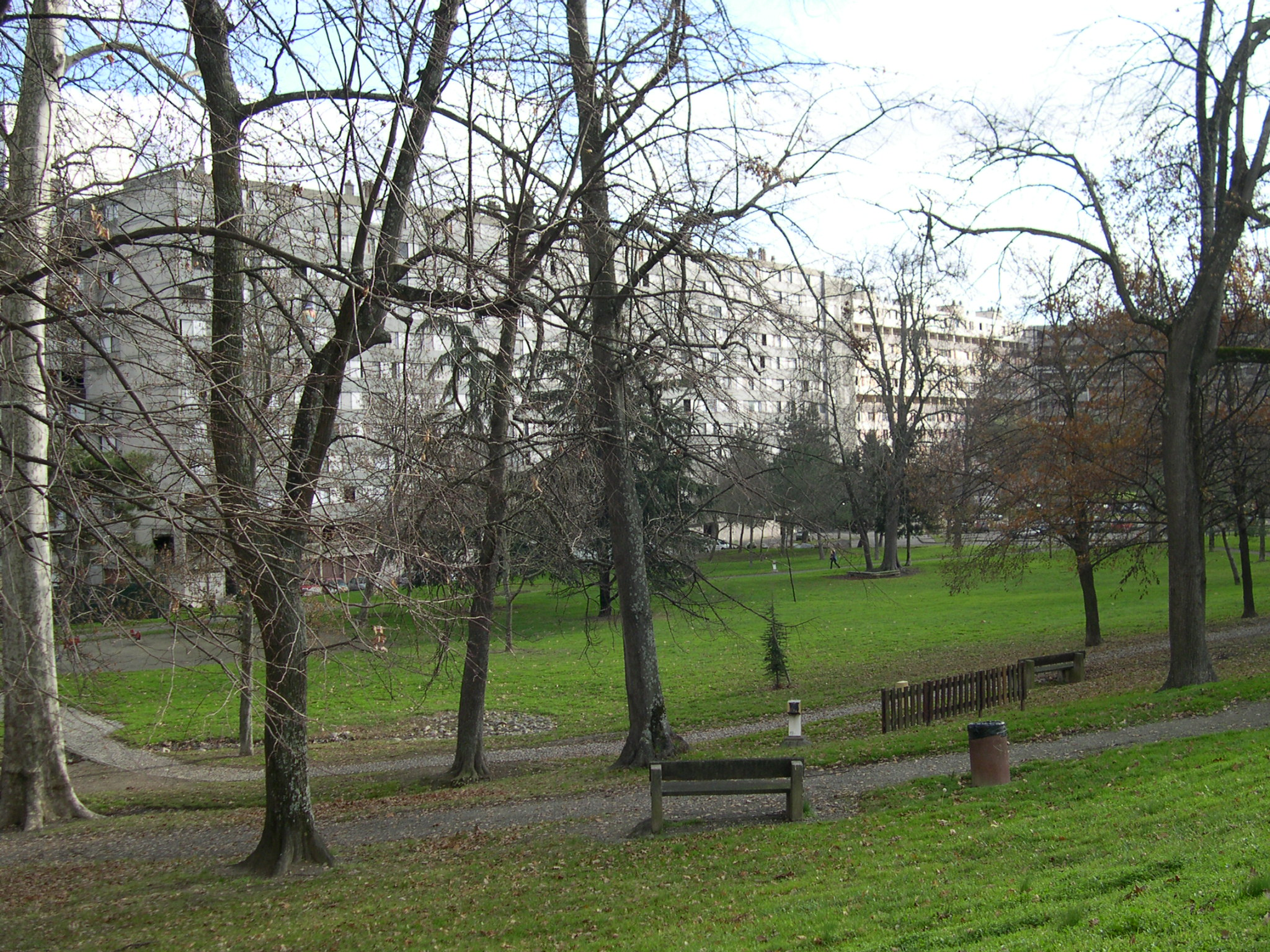 Bellefontaine district in Toulouse.